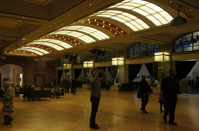 Currelly Gallery, Royal Ontario Museum interior — in Toronto, Ontario, Canada.